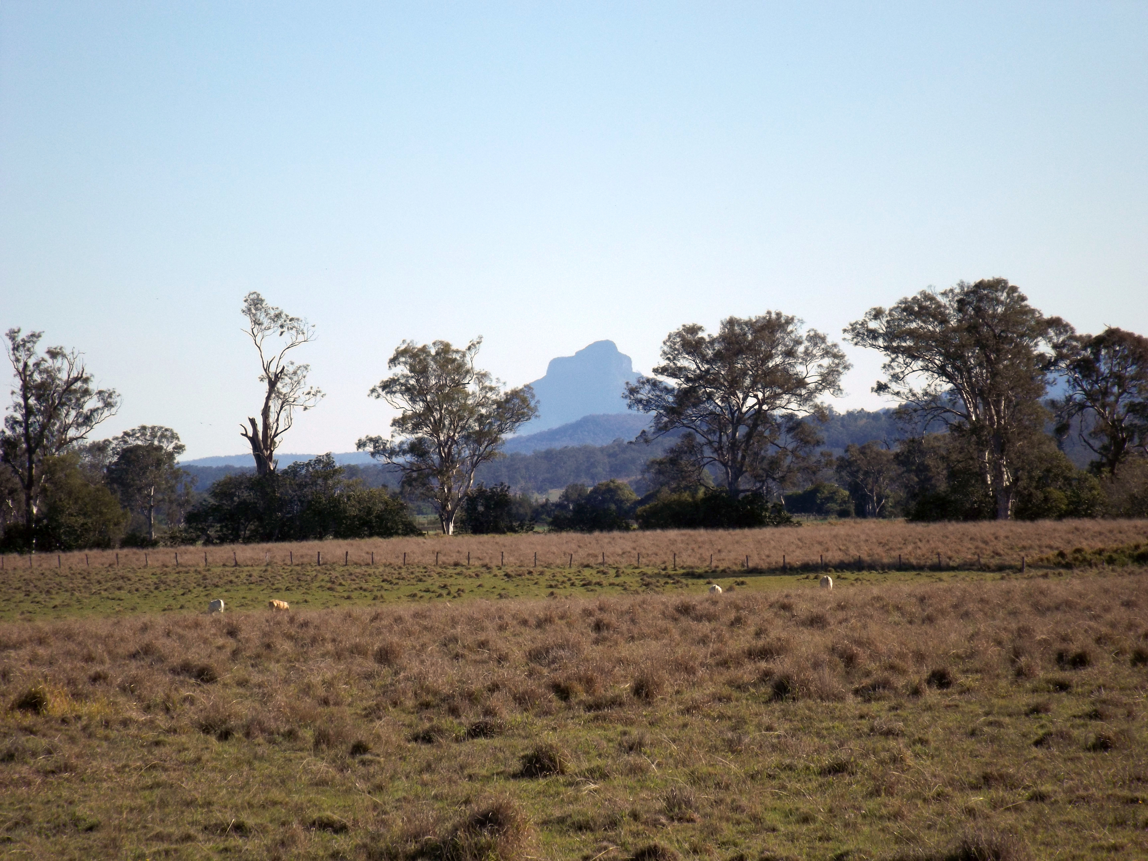 Photo of Mount Lindesay from Laravale, Scenic Rim Region, Queensland, Australia.